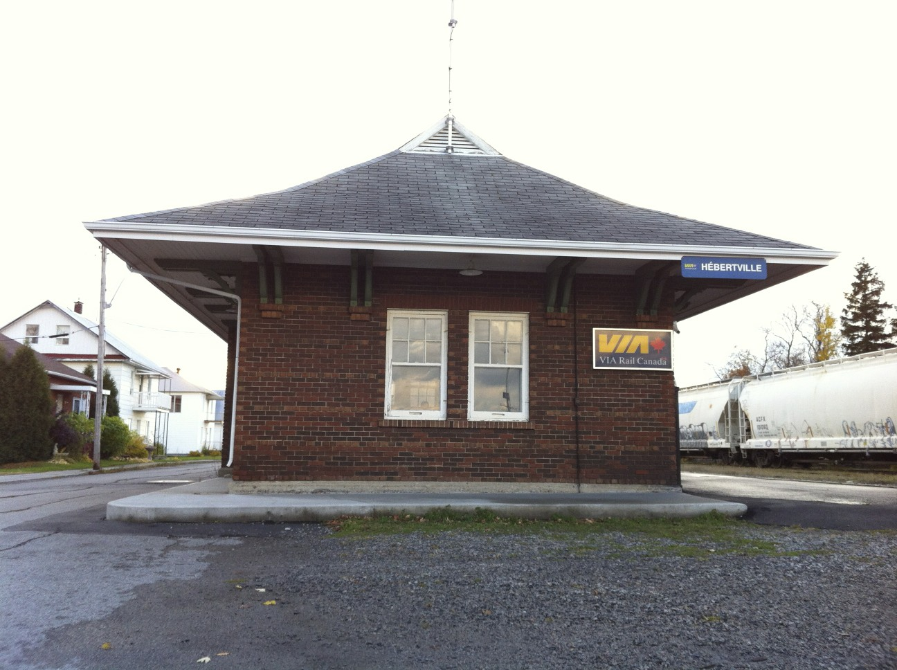 Train Station, Hébertville-Station, Quebec